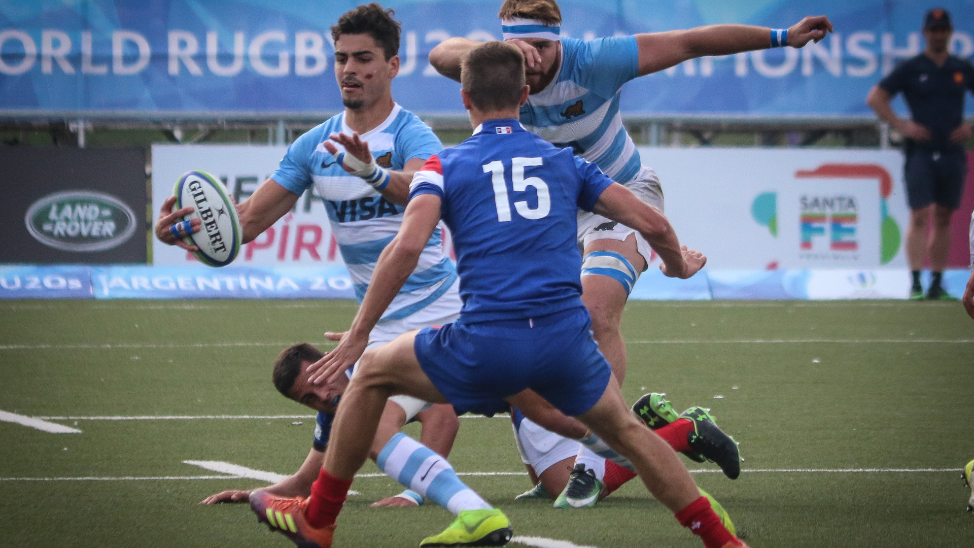 Match between Argentina and France at the World Rugby U20 Championship 2019.